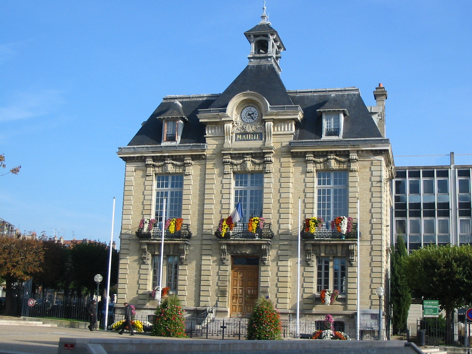 Brunoy city hall